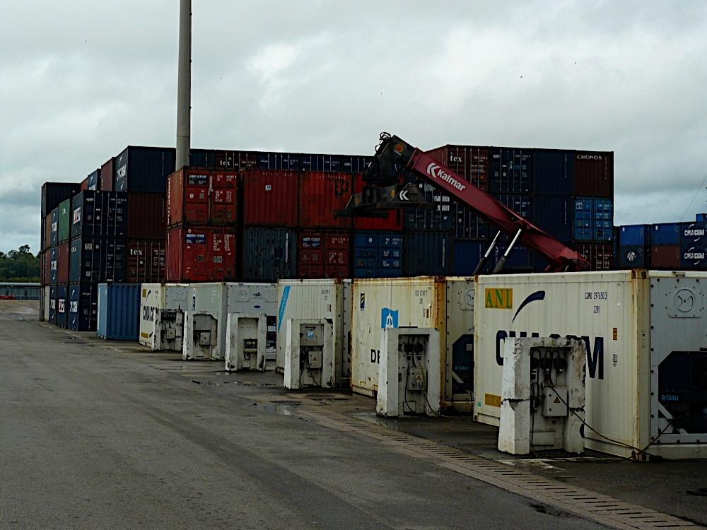 Containers in Dégrad-Des-Cannes port